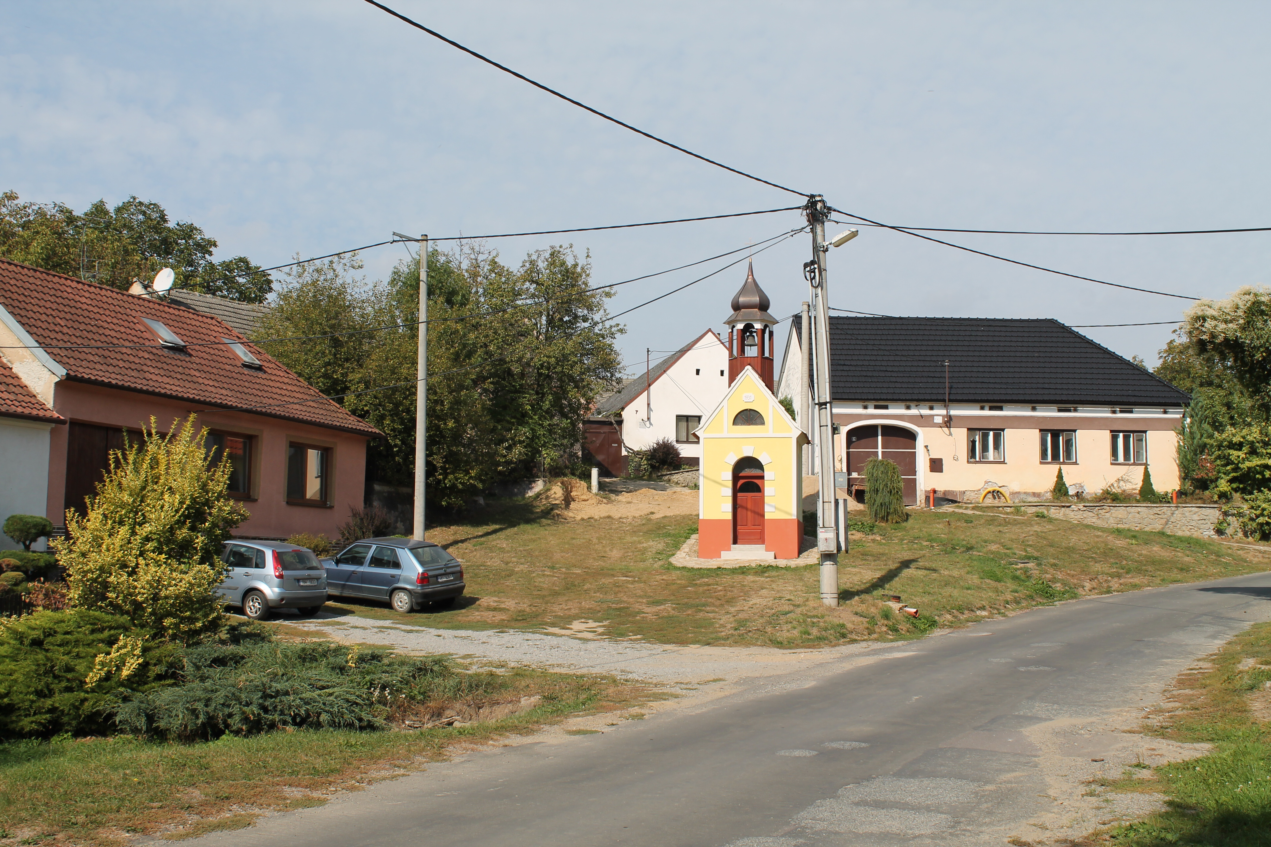 Ratišovice, Běhařovice, Znojmo District, Czech Republic This photograph was taken during a group photography field trip by Brno Wikipedians: 2016-09-28.